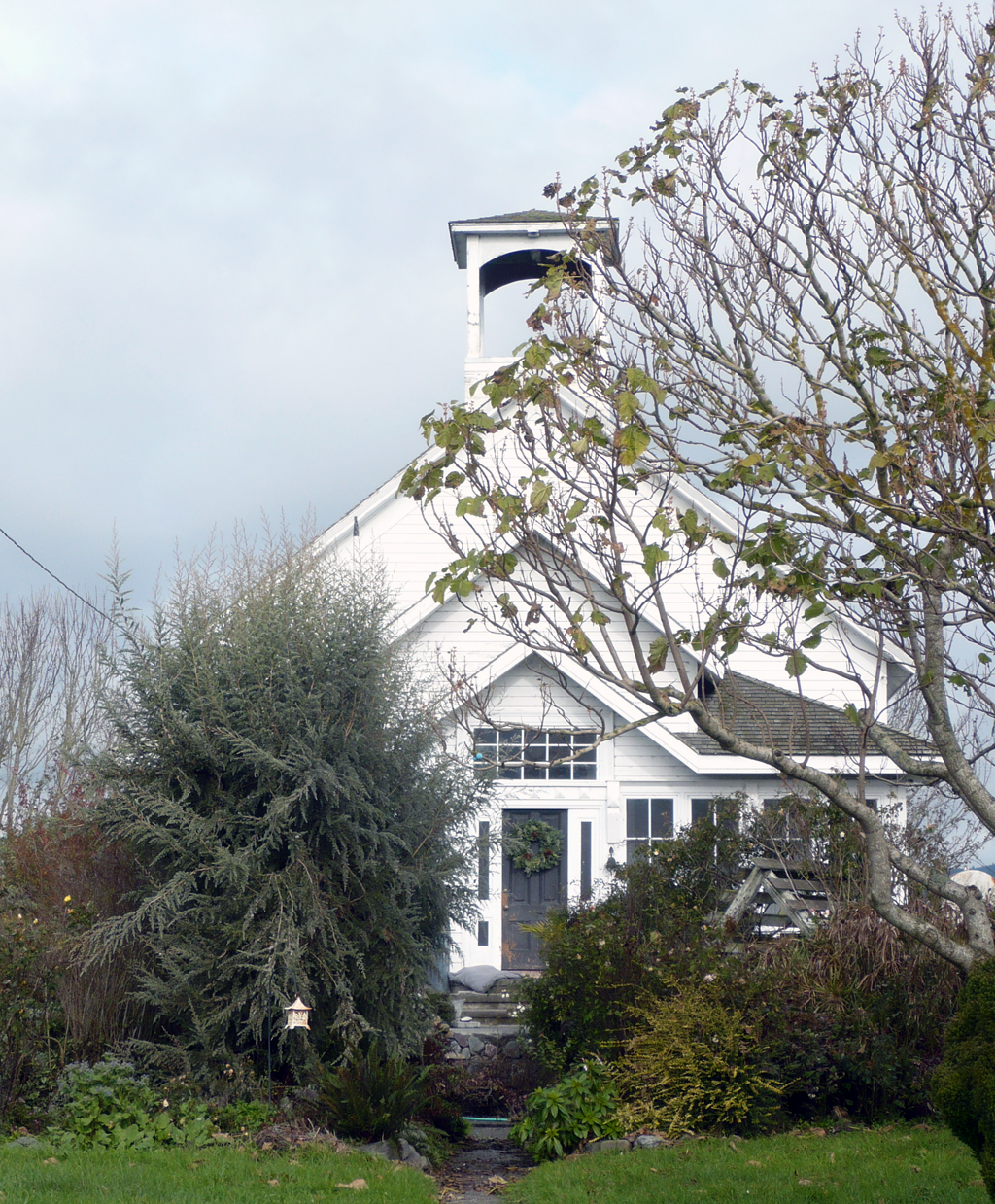 The Grizzly Bluff School was an historic school at Grizzly Bluff on East Ferry Road in the farm fields outside Ferndale, California and alongside the Eel River in Humboldt County, California. Built in 1871 by John Davenport and Tom Dix, this Greek Revival schoolhouse is currently in private use.